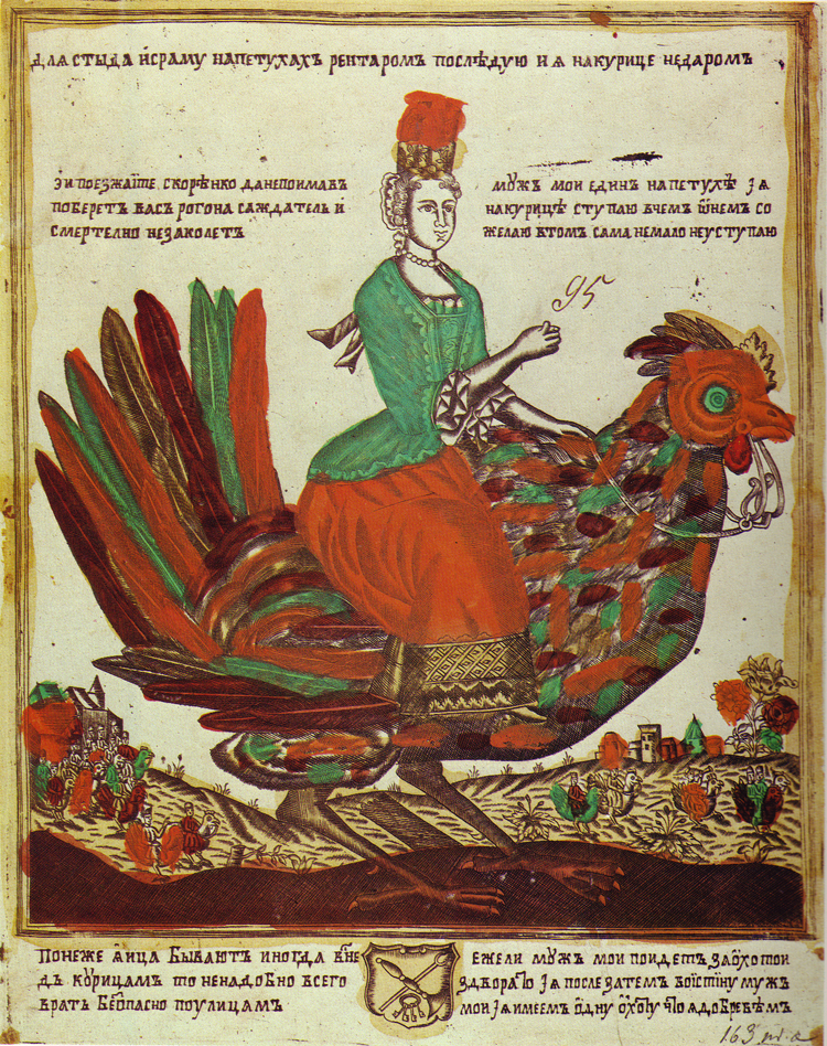 Lubok "On a hen". Russian Folk Art Pictures.